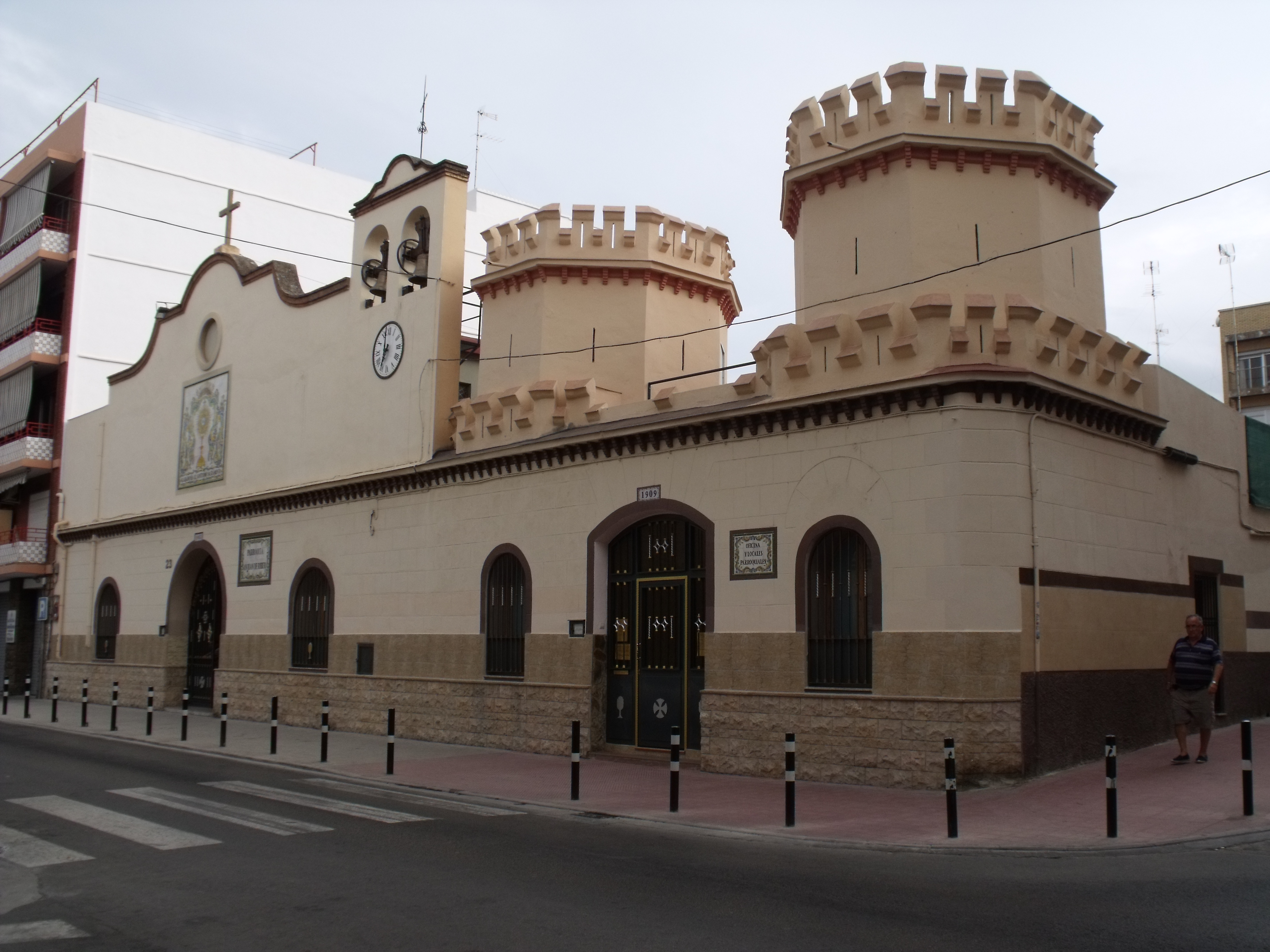 Parrish church of San Juan de Ribera in Burjassot (Valencia). 13.078-006.